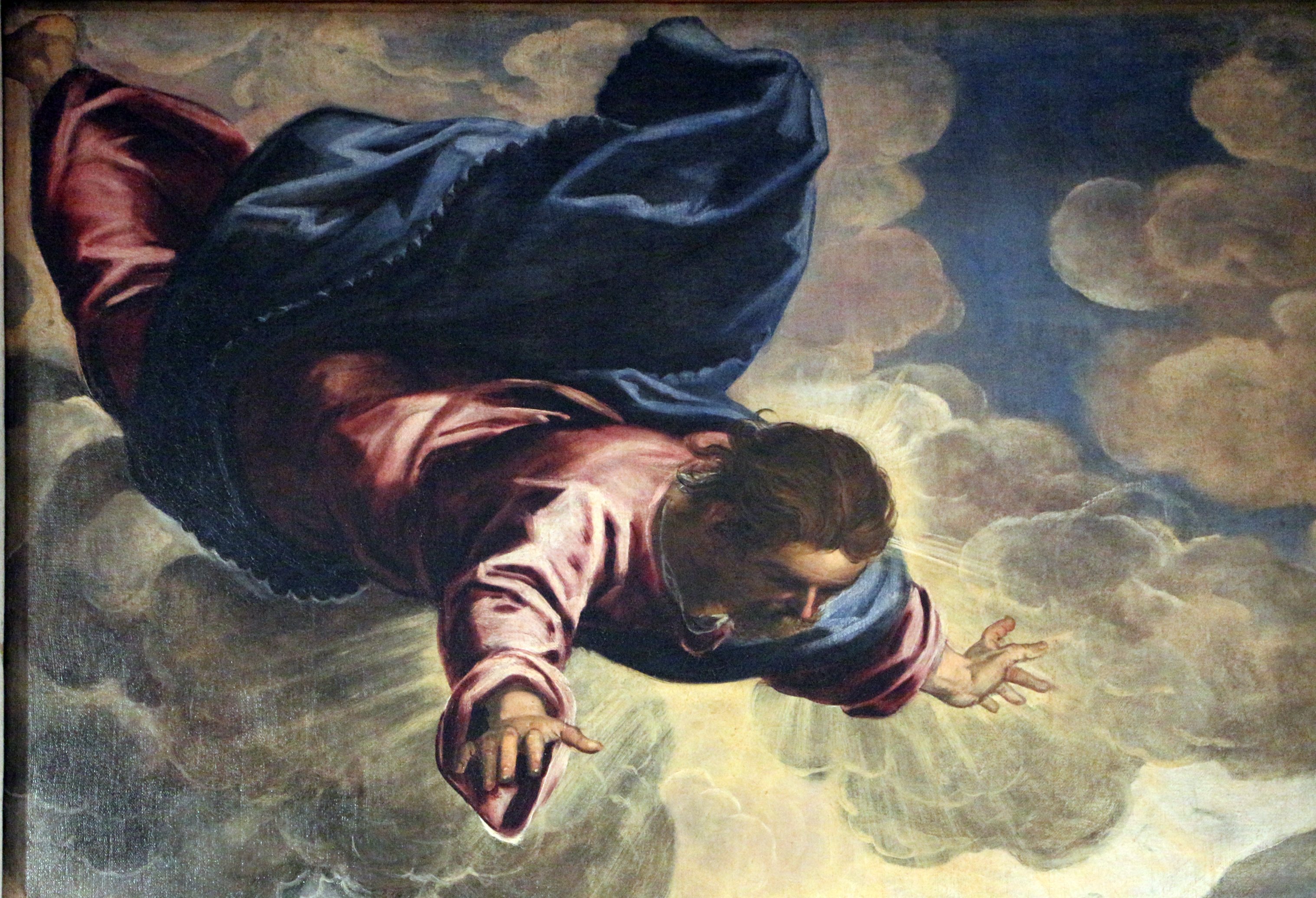 San Trovaso (Venice)